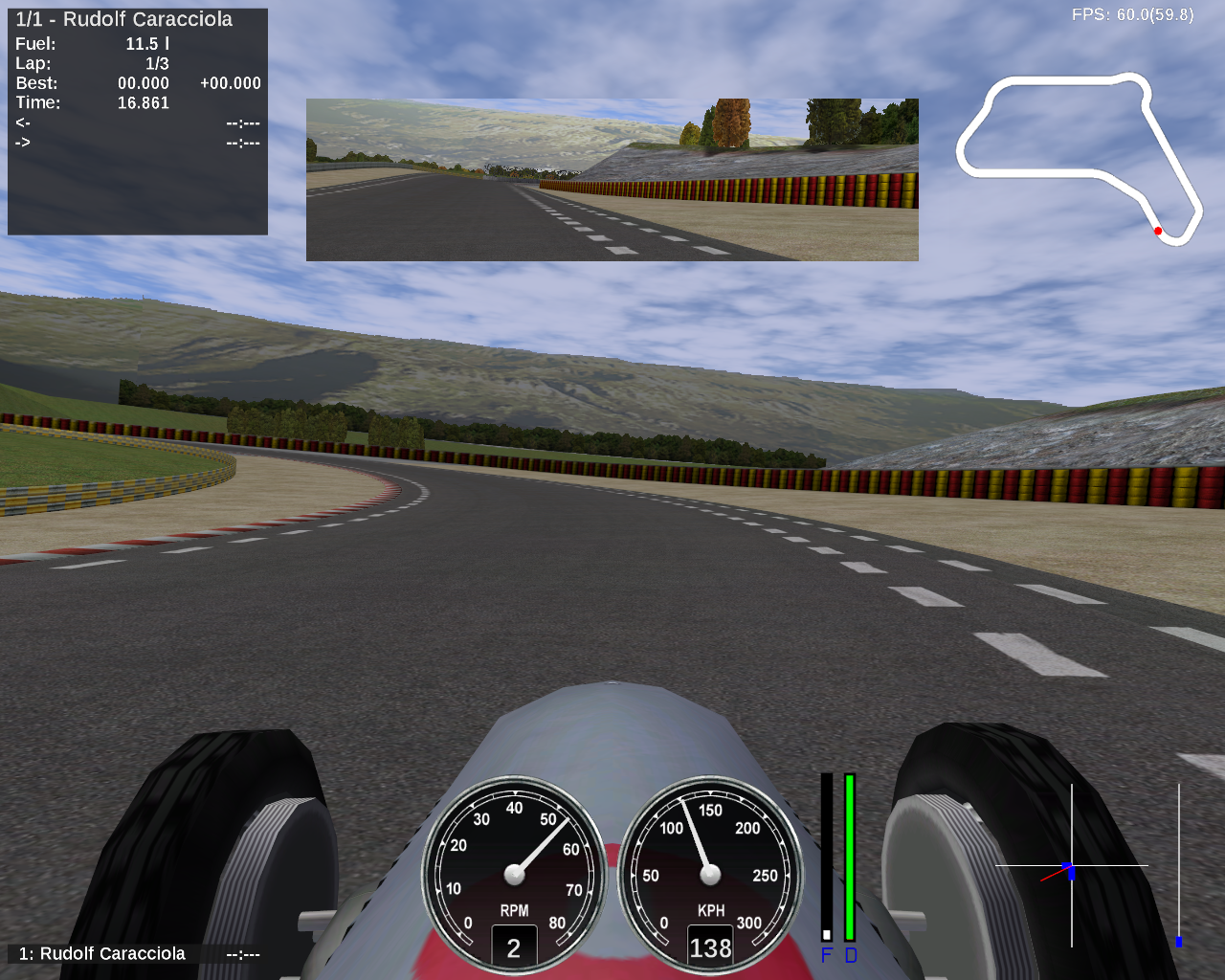 Unedited in-game screenshot of Speed Dreams 2.0, with annotations describing the various instruments of the 2D interface. Car: Silber W25B Track: Chemisay This screenshot either does not contain copyright-eligible parts or visuals of copyrighted software, or the author has released it under a free license (which should be indicated beneath this notice), and as such follows the licensing guidelines for screenshots of Wikimedia Commons. You may use it freely according to its particular license. Free software license: This work is free software; you can redistribute it and/or modify it under the terms of the GNU General Public License as published by the Free Software Foundation; either version 2 of the License, or any later version. This work is distributed in the hope that it will be useful, but without any warranty; without even the implied warranty of merchantability or fitness for a particular purpose. See version 2 and version 3 of the GNU General Public License for more details. Copyleft: This work of art is free; you can redistribute it and/or modify it according to terms of the Free Art License. You will find a specimen of this license on the Copyleft Attitude site as well as on other sites. Note: if the screenshot shows any work that is not a direct result of the program code itself, such as a text or graphics that are not part of the program, the license for that work must be indicated separately.